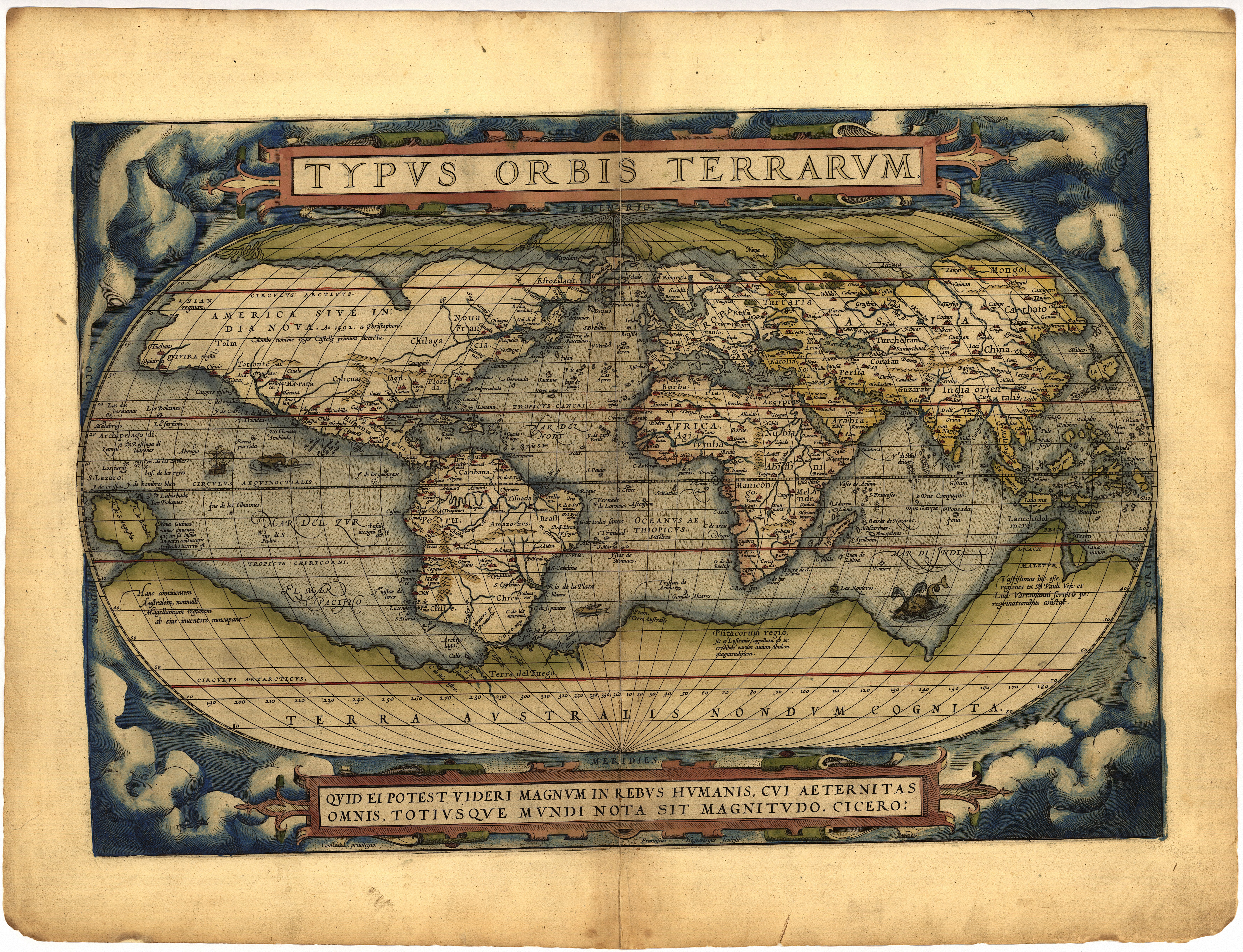 World map; title:Typus Orbis Terrarum; size: 340 x 494 mm